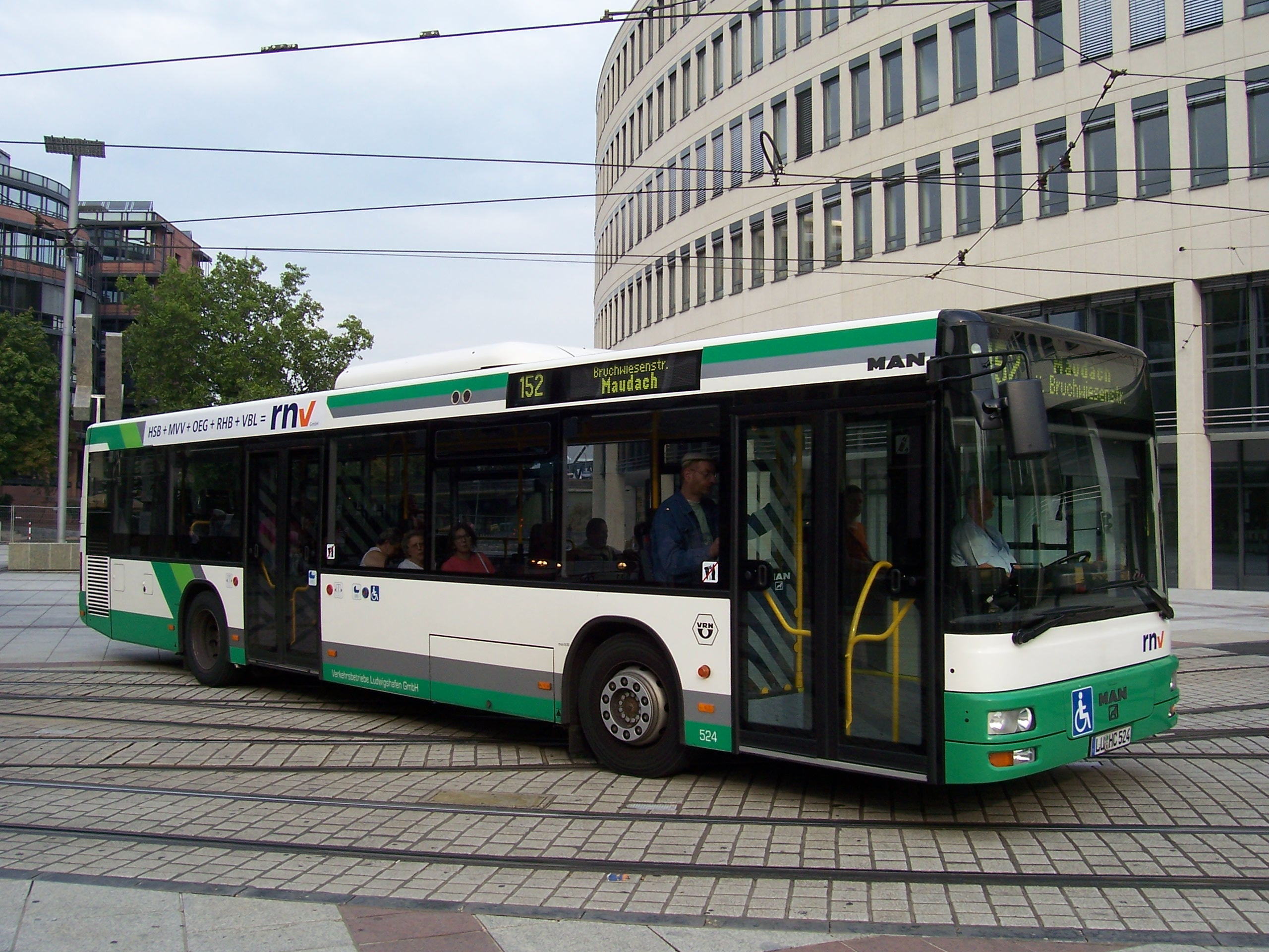 A MAN A21/NL 263 bus in Ludwigshafen am Rhein, Germany My own photo from 9-sep-2005